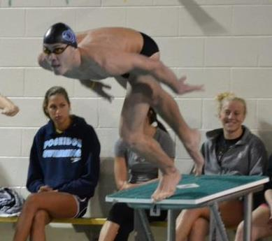 swimming